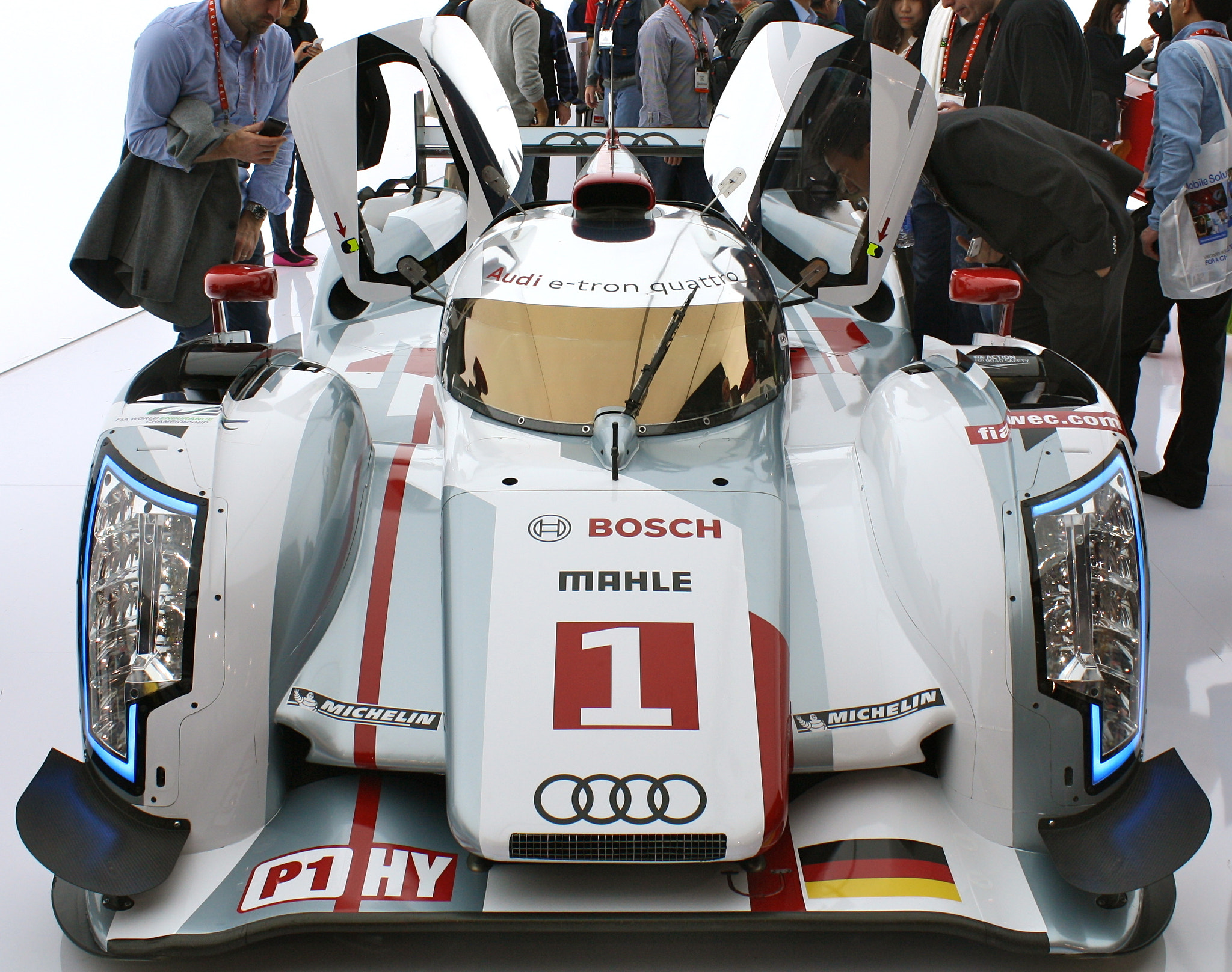 500px provided description: Race Car [#cars ,#racing ,#car show ,#ces ,#outex]